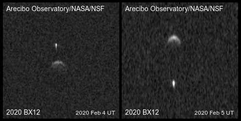 Range-Doppler radar images of binary near-Earth asteroid 2020 BX12 with range resolution of 7.5 m/pixel (vertical axis) and Doppler frequency resolution of 0.075 Hz/pixel (horizontal axis).